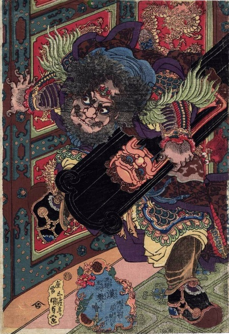 Fan Kuai (樊噲) breaking down a door in the Emperor's palace from the series Kan-So gundan (Battle Tales of the Han and Chu - 漢楚軍談).